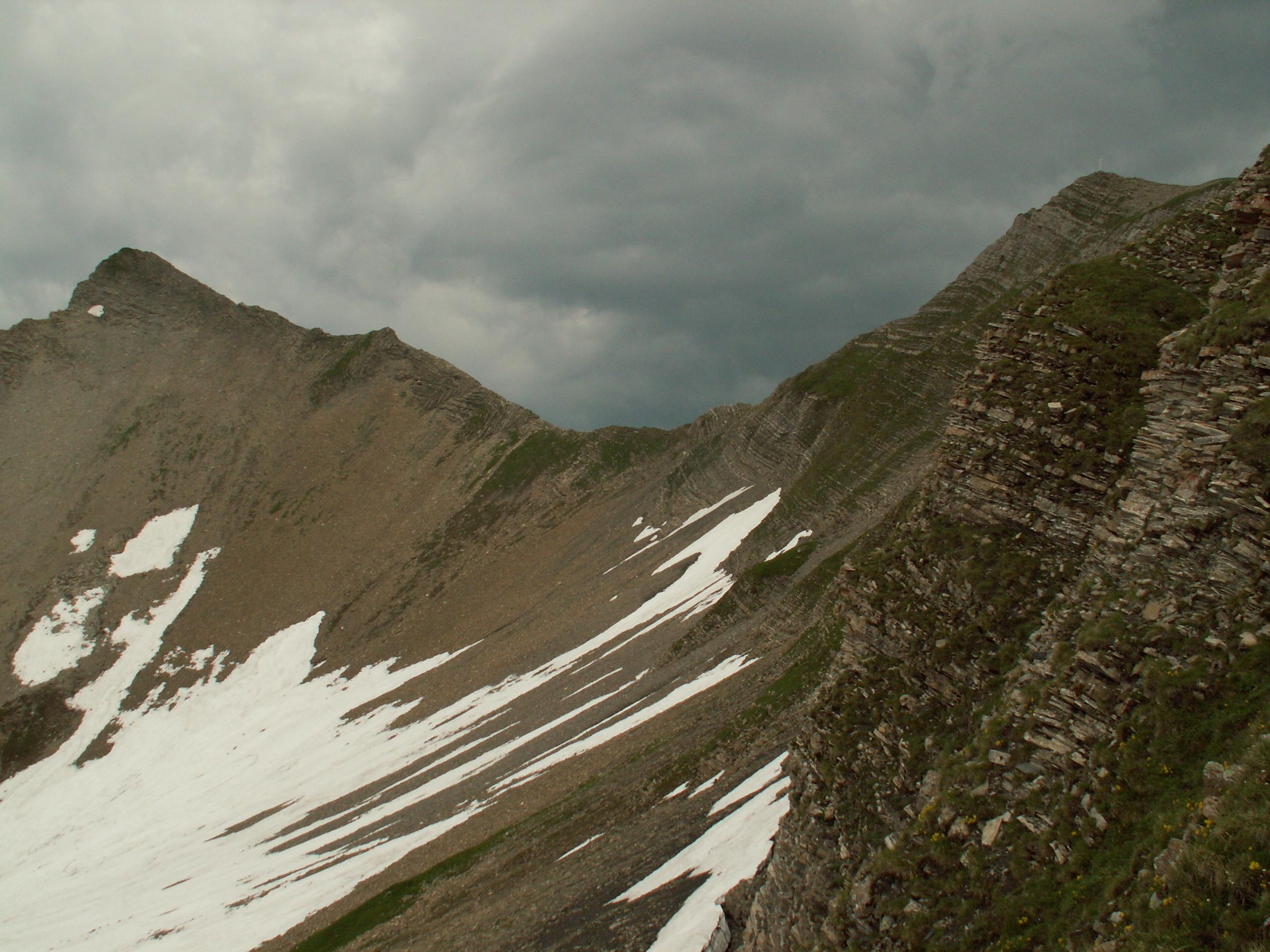 Grauspitz, Rätikon)